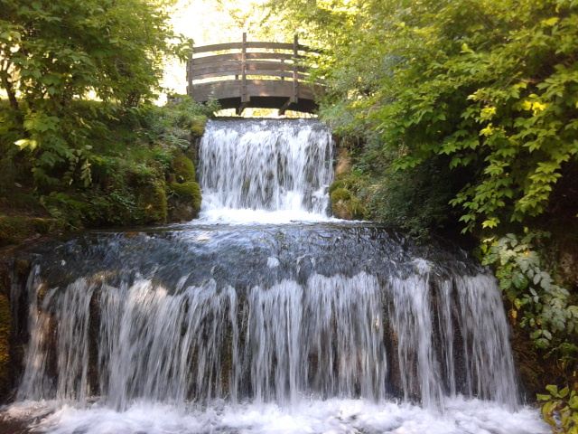 Bridge in the Sponga park, Canistro, Abruzzo, Italy